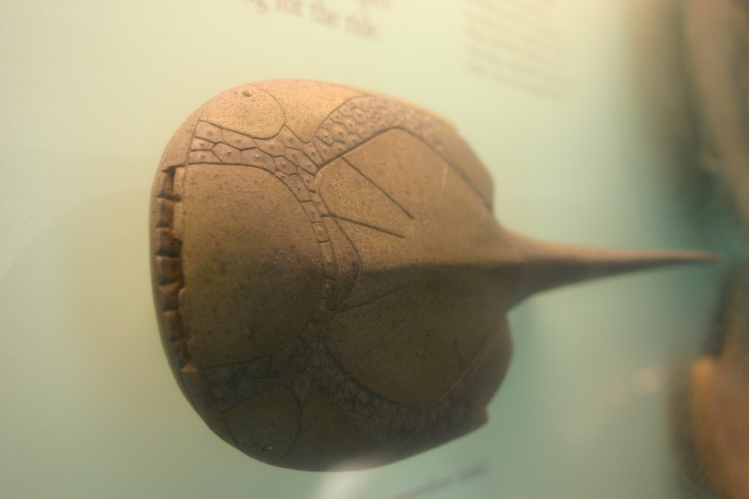 Drepanaspis gemuendensis exhibited in Smithsonian National Museum of Natural History: Hall of Fossils